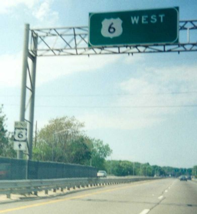 US 6 westbound in Providence, Rhode Island, at the exit for Route 128. Taken May 12, 2001 by SPUI.